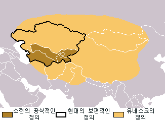 showing different definitions of the the central asia region.